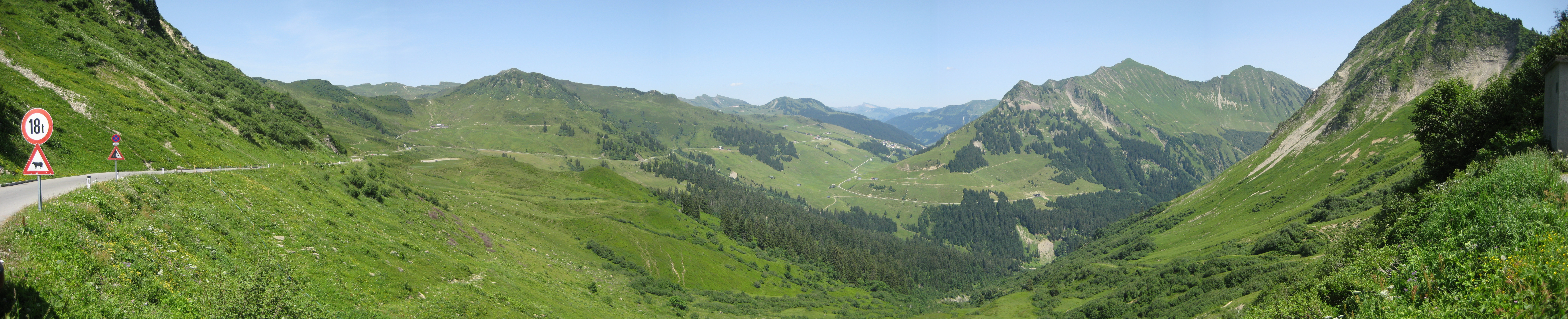 Furkajoch, heading east This image was created with Hugin